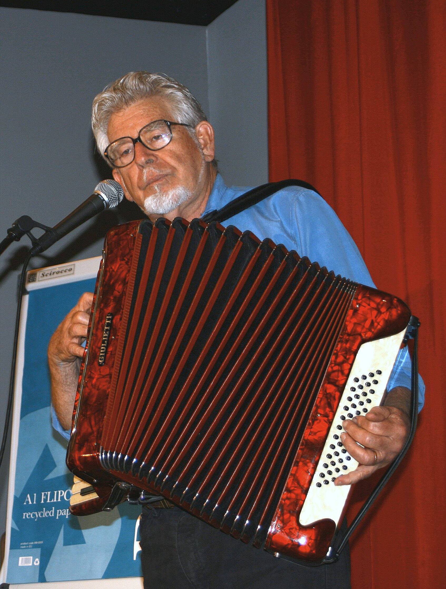 Rolf Harris playing a Giulietti accordion at Nightingale House, London.